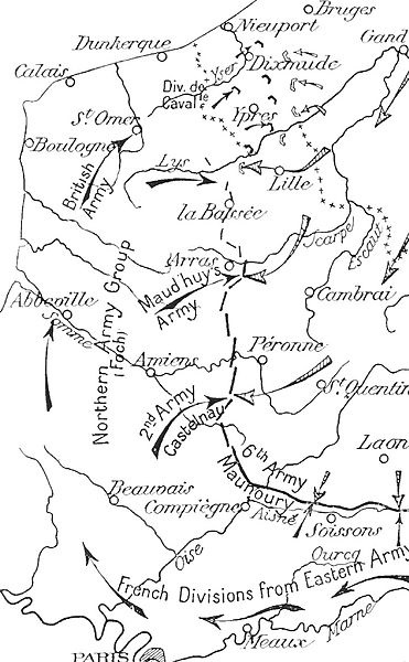 Diagram of German and Allied moves into Artois and Flanders, September-October 1914